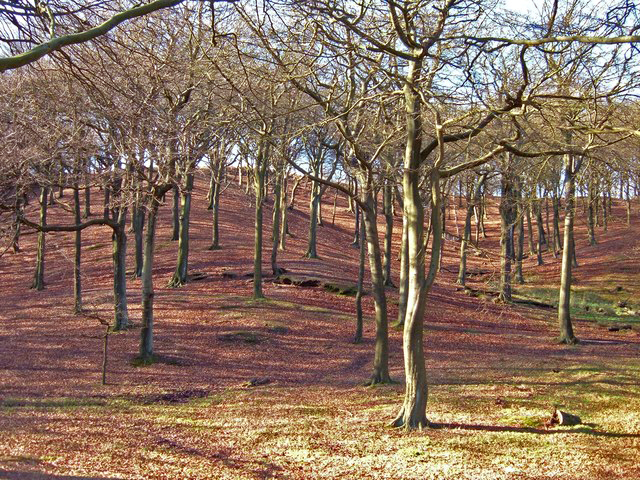 Tandal Hill Country Park in Royton, Greater Manchester, England.